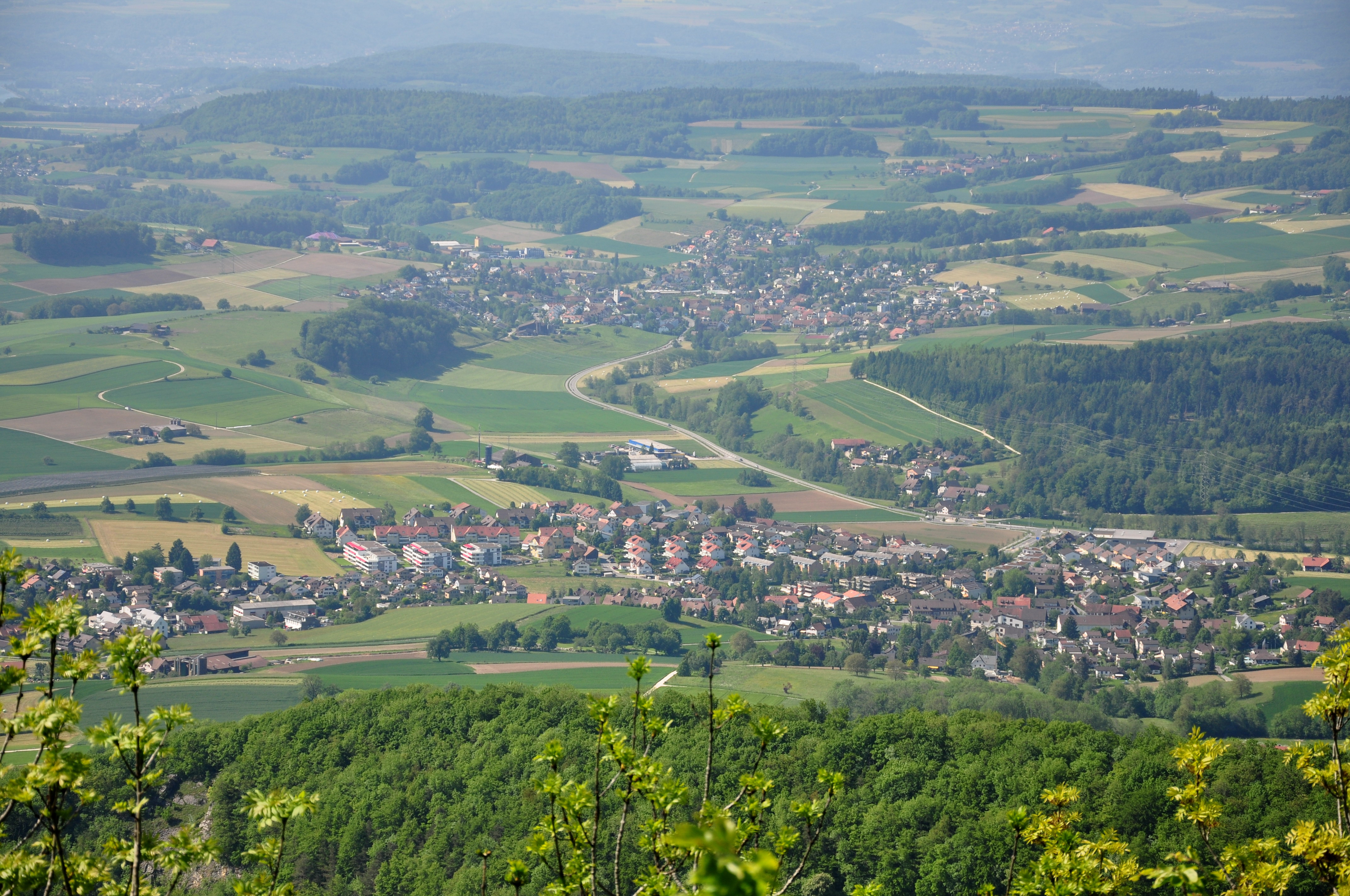 Not Dachsleren-Schleinikon, but Ehrendingen, Tiefenwaag and Lengnau (all in the Swiss canton Aargau!) as seen from Burghorn respectively Jura-Höhenweg on Lägern (Switzerland)